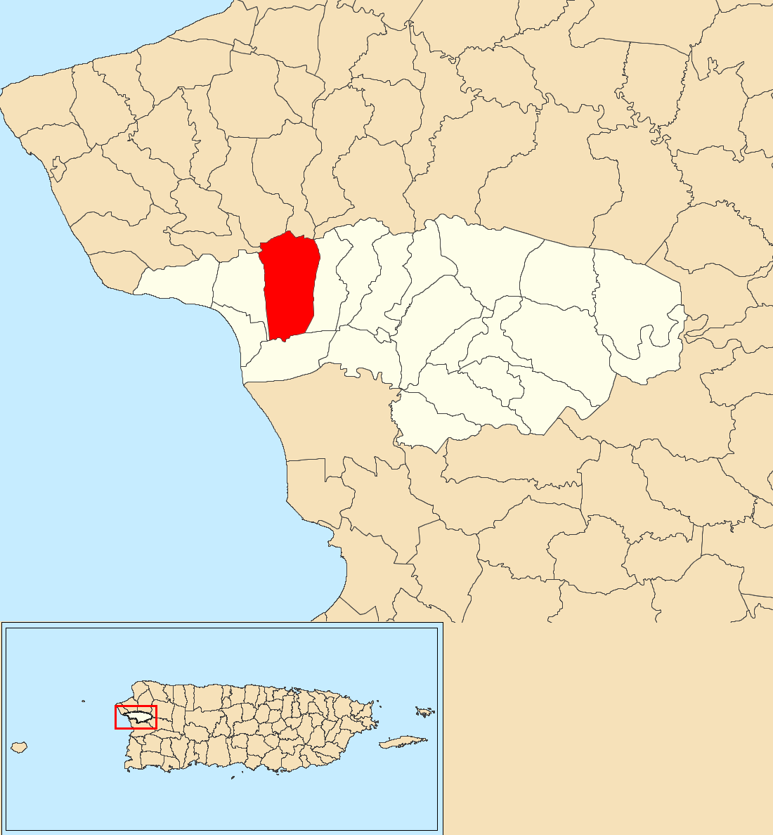 Piñales, Añasco, Puerto Rico locator map